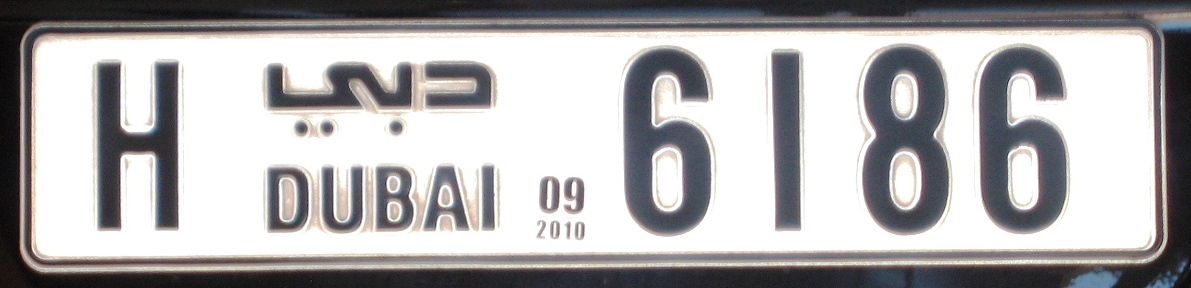 Back license plate from Dubai, UAE